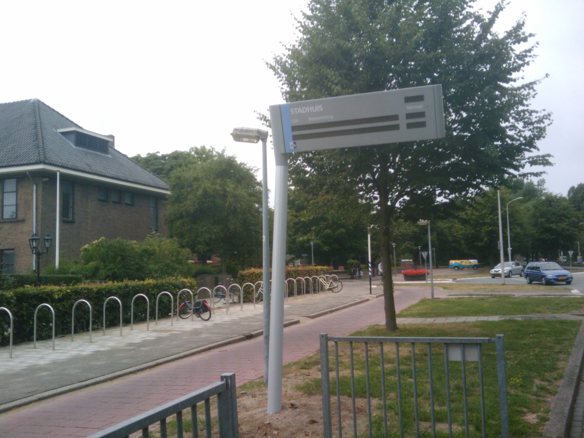 Electronic bus announcement sign at busstation Raadhuis (Stadhuis/city hall) in Katwijk NL. Electronische busaanwijzer bij busstation Raadhuis (stadhuis) in Katwijk.